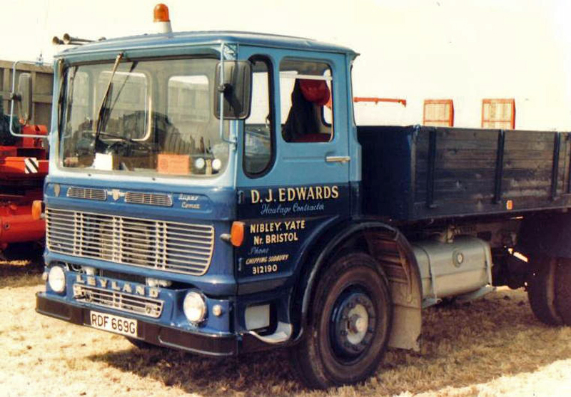 Late sixties' Ergomatic cab Leyland Super Comet (circa 1969) of Dave Edwards, out of Yate.